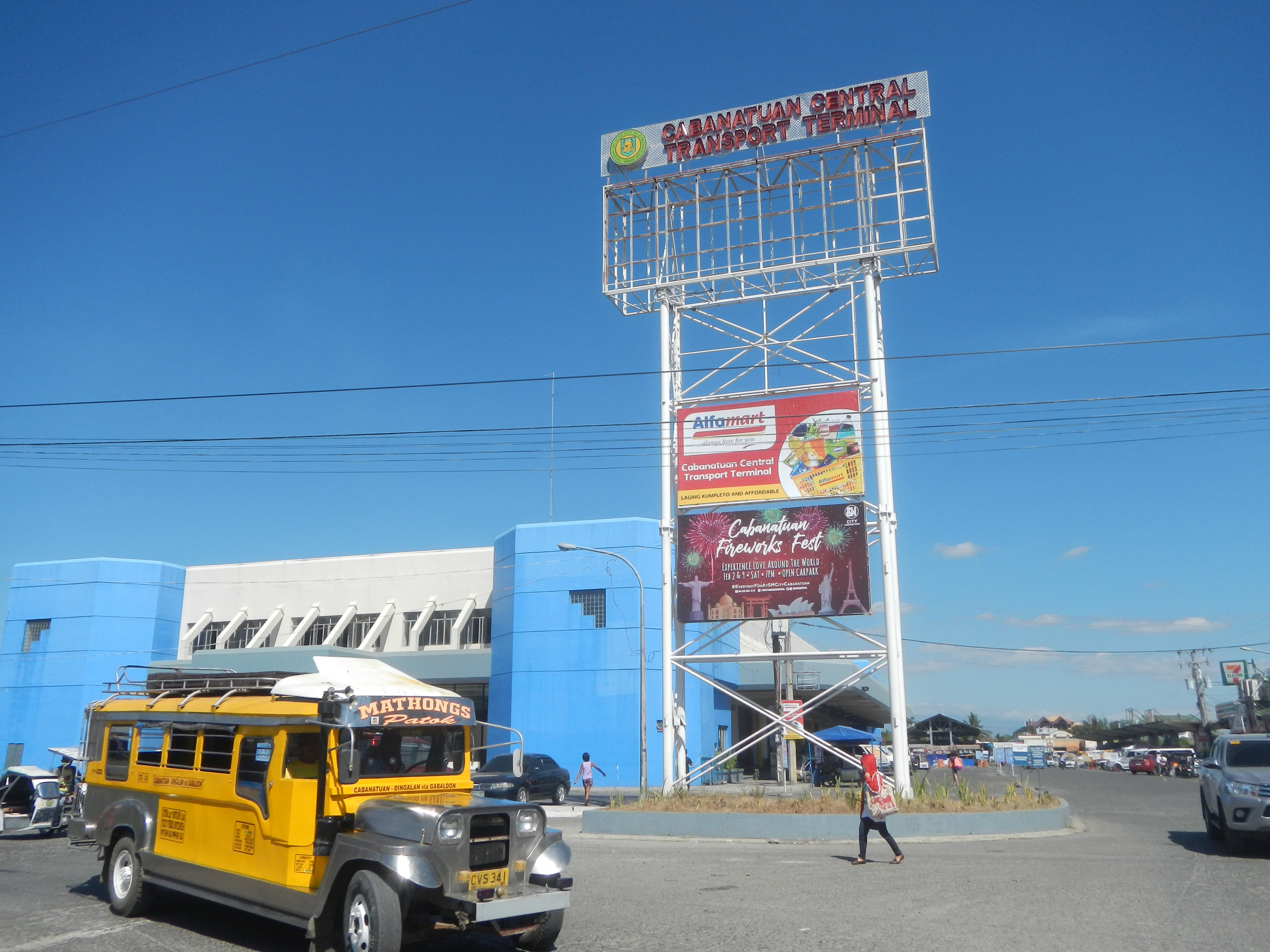 Skill Power Institute, Inc. Cabanatuan Central Transport Terminal Barangay Barrera 15.4815, 120.9645 Cabanatuan City, Nueva Ecija along corner Pan-Philippine Highway Maharlika Highway (Cagayan Valley Road, Cabanatuan City) (Note: Judge Florentino Floro, the owner, to repeat, Donor Florentino Floro of all these photos hereby donate gratuitously, freely and unconditionally all these photos to and for Wikimedia Commons, exclusively, for public use of the public domain, and again without any condition whatsoever).